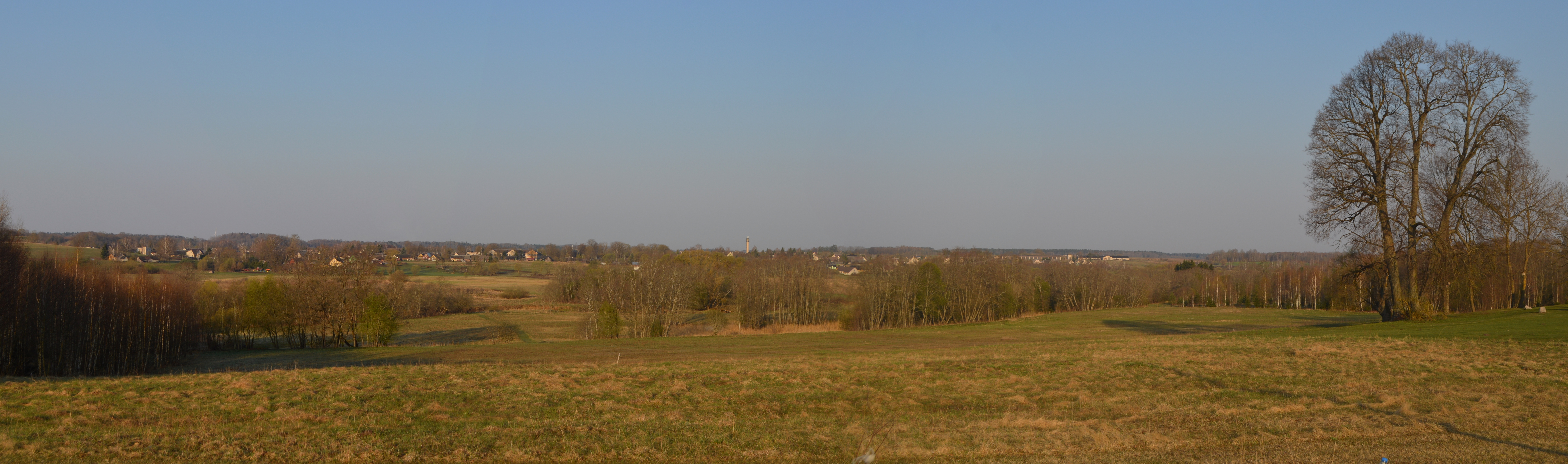 View from Kaliskai to the panorama of Kurkliai over the river valley of the Virinta